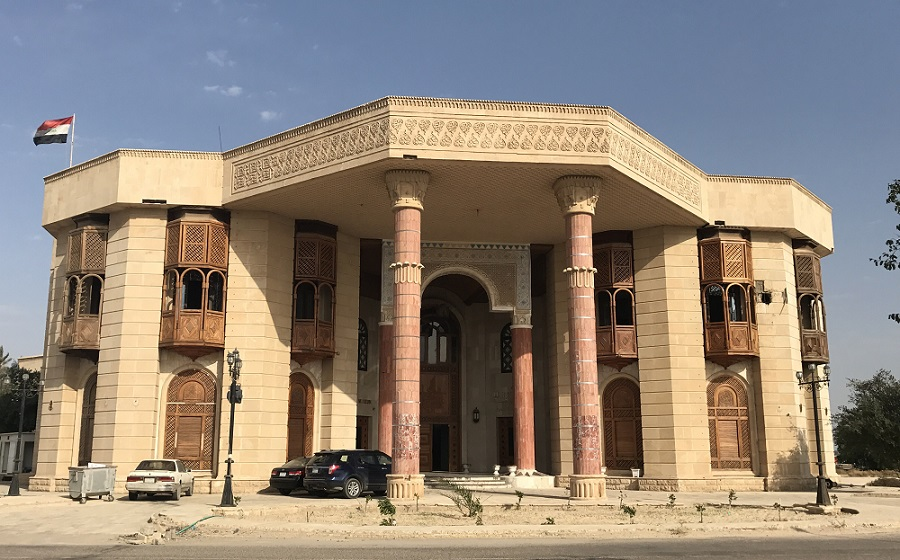 Basrah Museum in Iraq in 2016 Photo: Persian Dutch Network